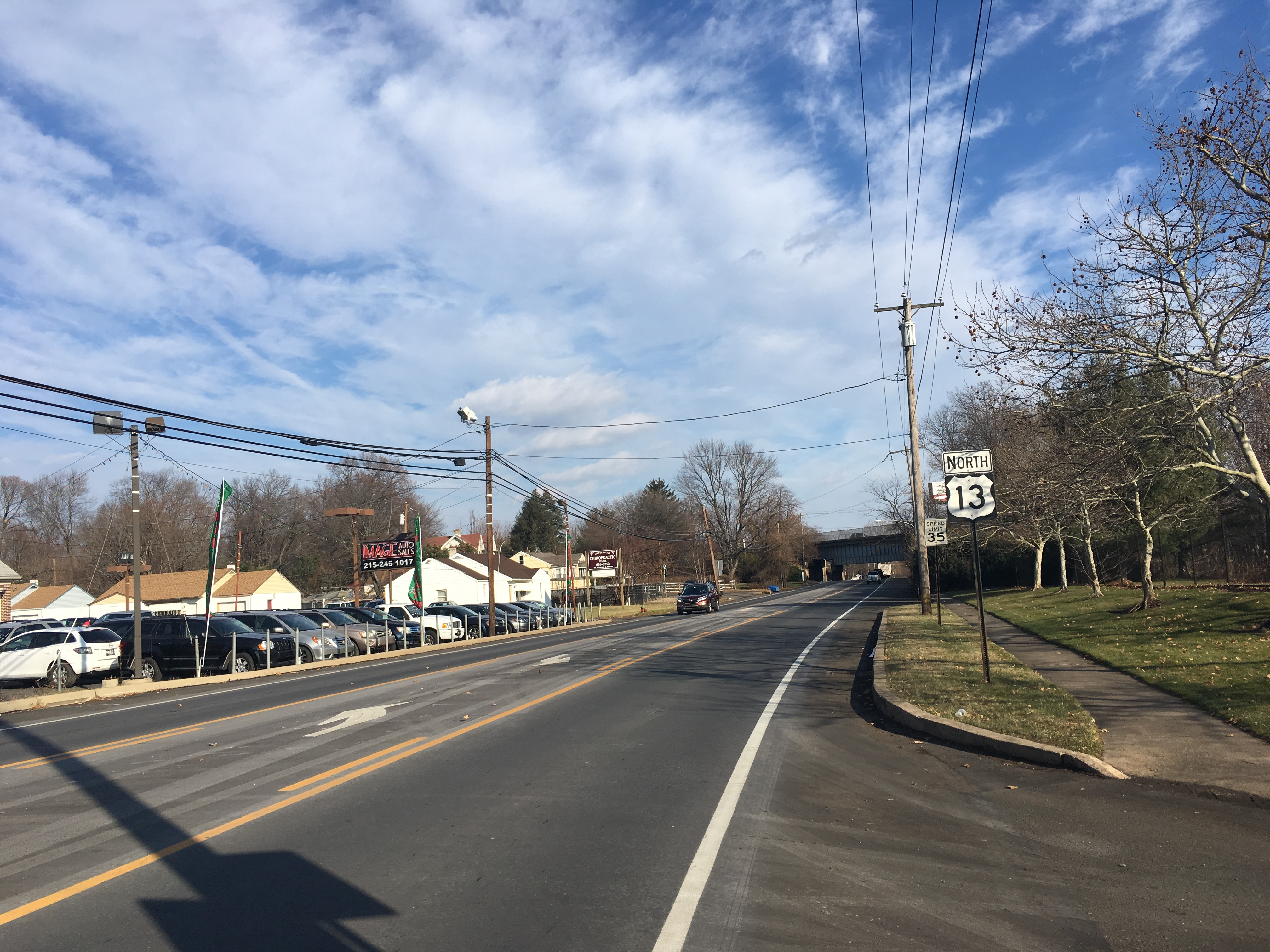 Northbound U.S. Route 13 (Bristol Pike) past the intersection with Bensalem Boulevard in Bensalem Township, Pennsylvania